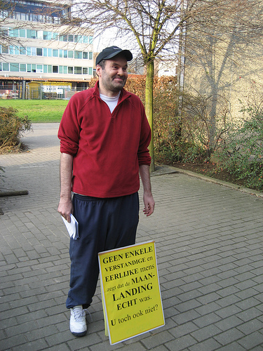 Text: No intelligent and honest man says the moon landing was real. Neither do you, do you ?